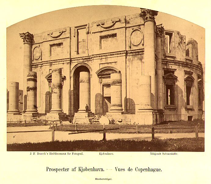 The Marble Church (Frederick's Church) in Copenhagen in ruins, c. 1859. Albumin, 163 x 220 mm.